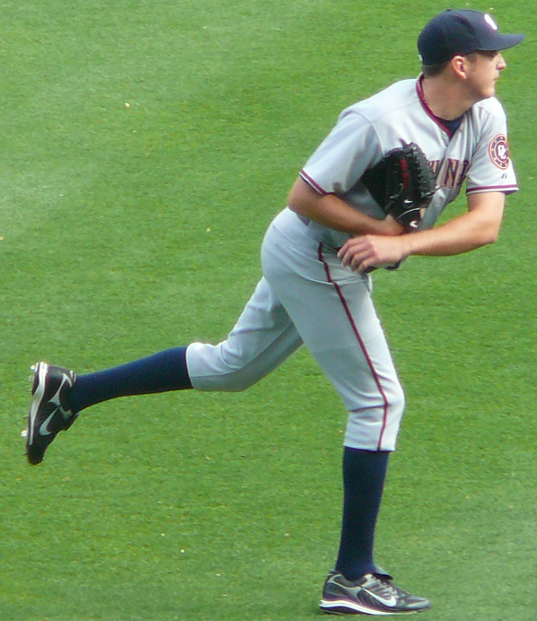 User:Chrisjnelson agreed to license this image of John_Lannan.jpg under a free attribution license. Any use of this image must be attributed; this means that Photo by :en:User:Chrisjnelson|Chris Nelson should be in the picture caption. 07:52, 24 April 2008 . . Chrisjnelson . . 598×692 (395 KB)